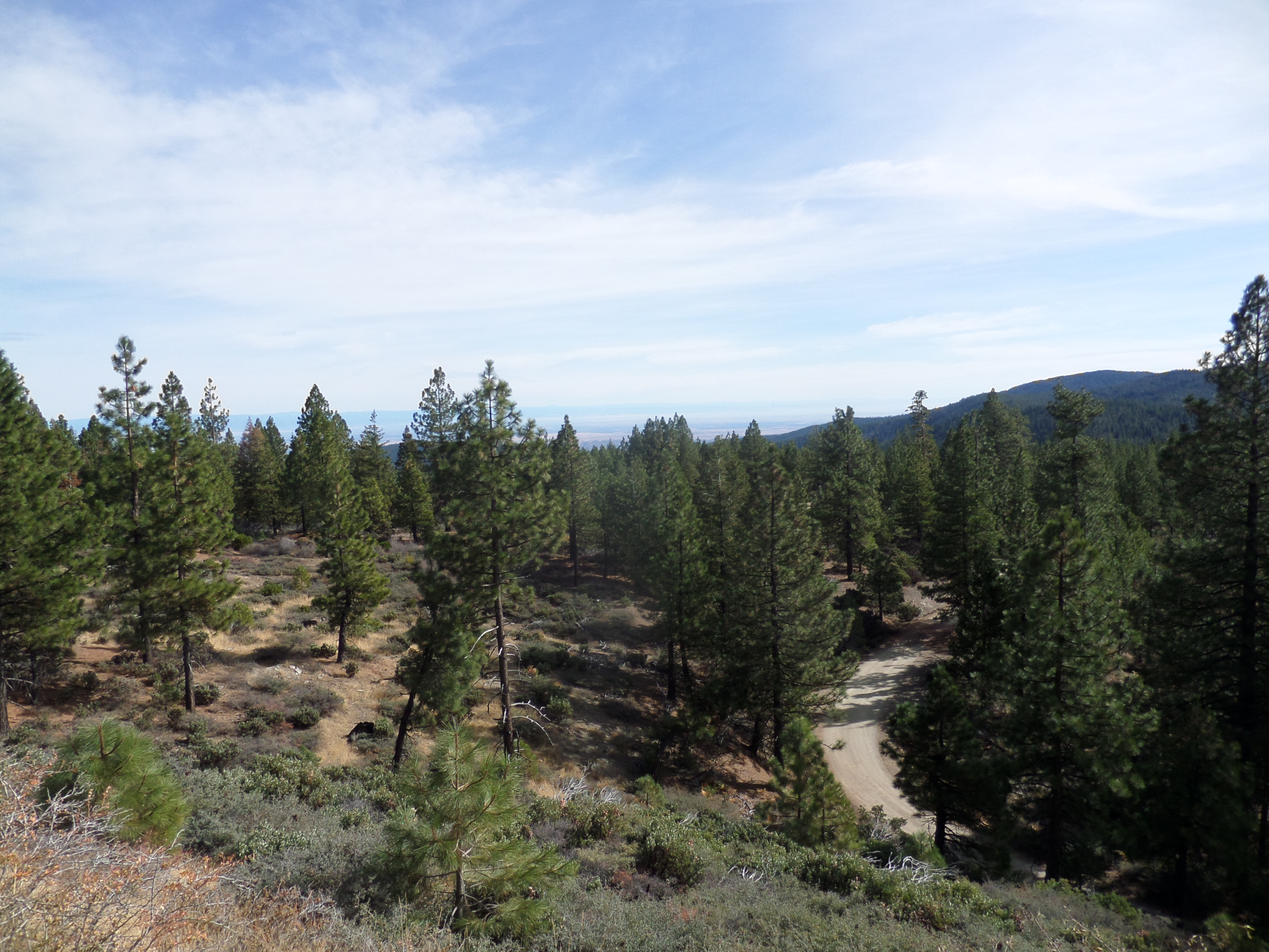 Mendocino National Forest. Alder Springs Road looking east towards the valley. November 2018.